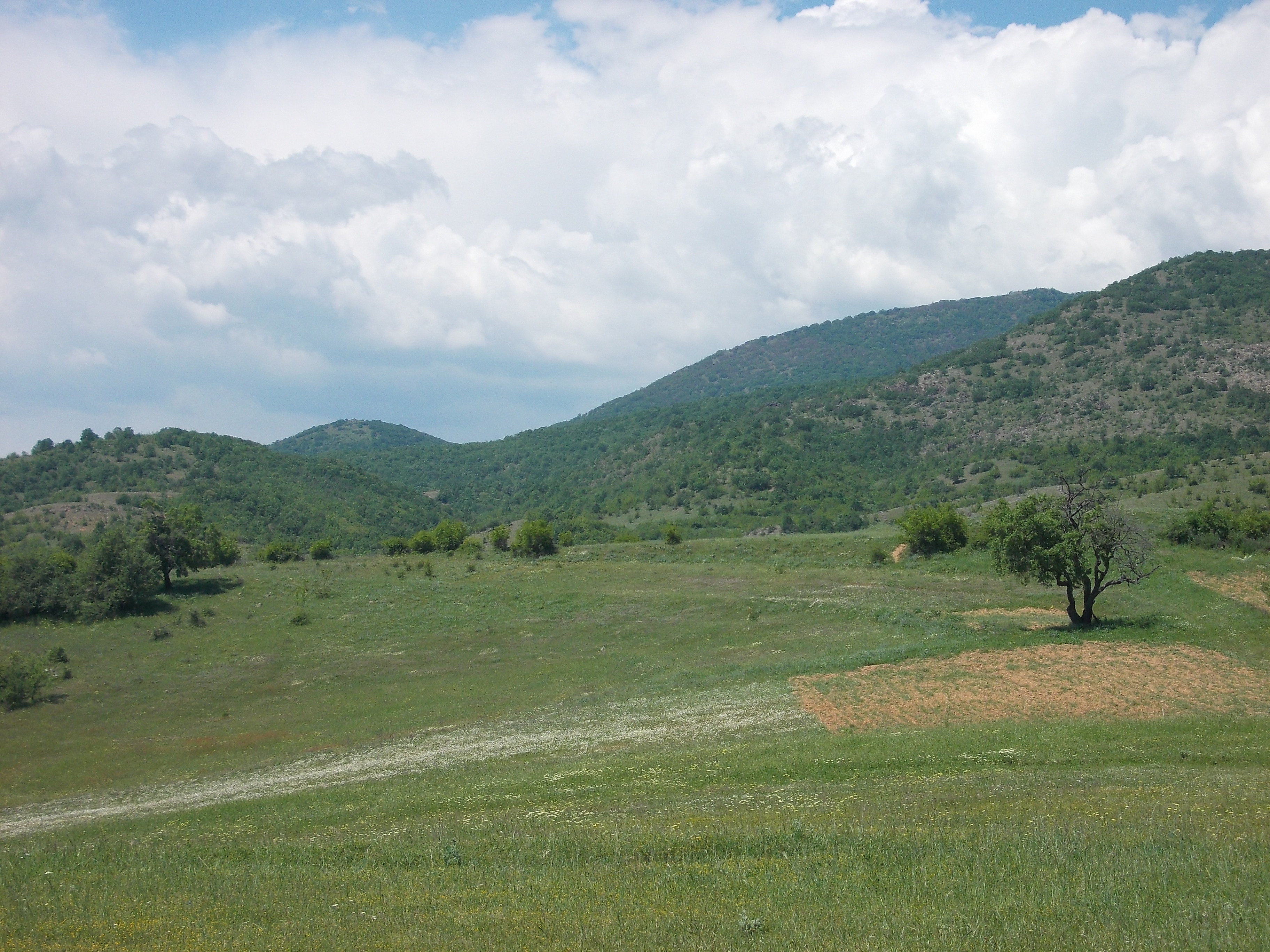 Above the village Martolci, Macedonia